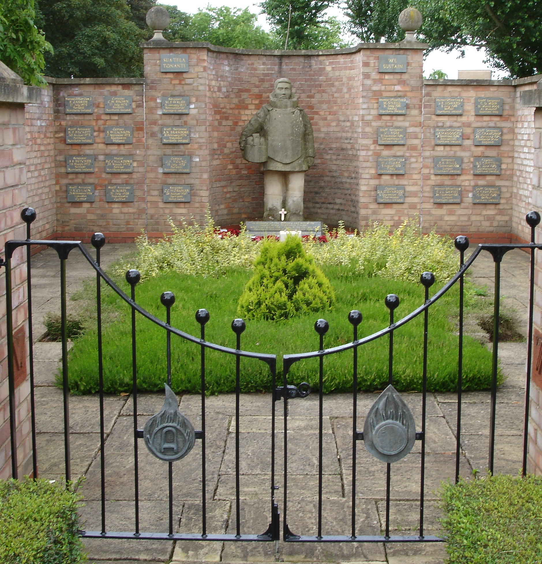 View of the RAOC and RLC Memorial at Marlborough Lines, Temple Herdewyke, Warwickshire